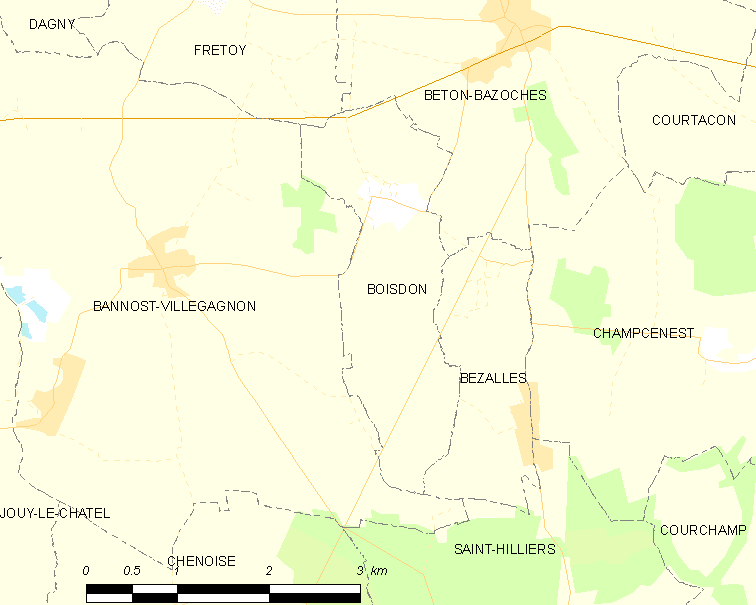 Map of French municipality Boisdon